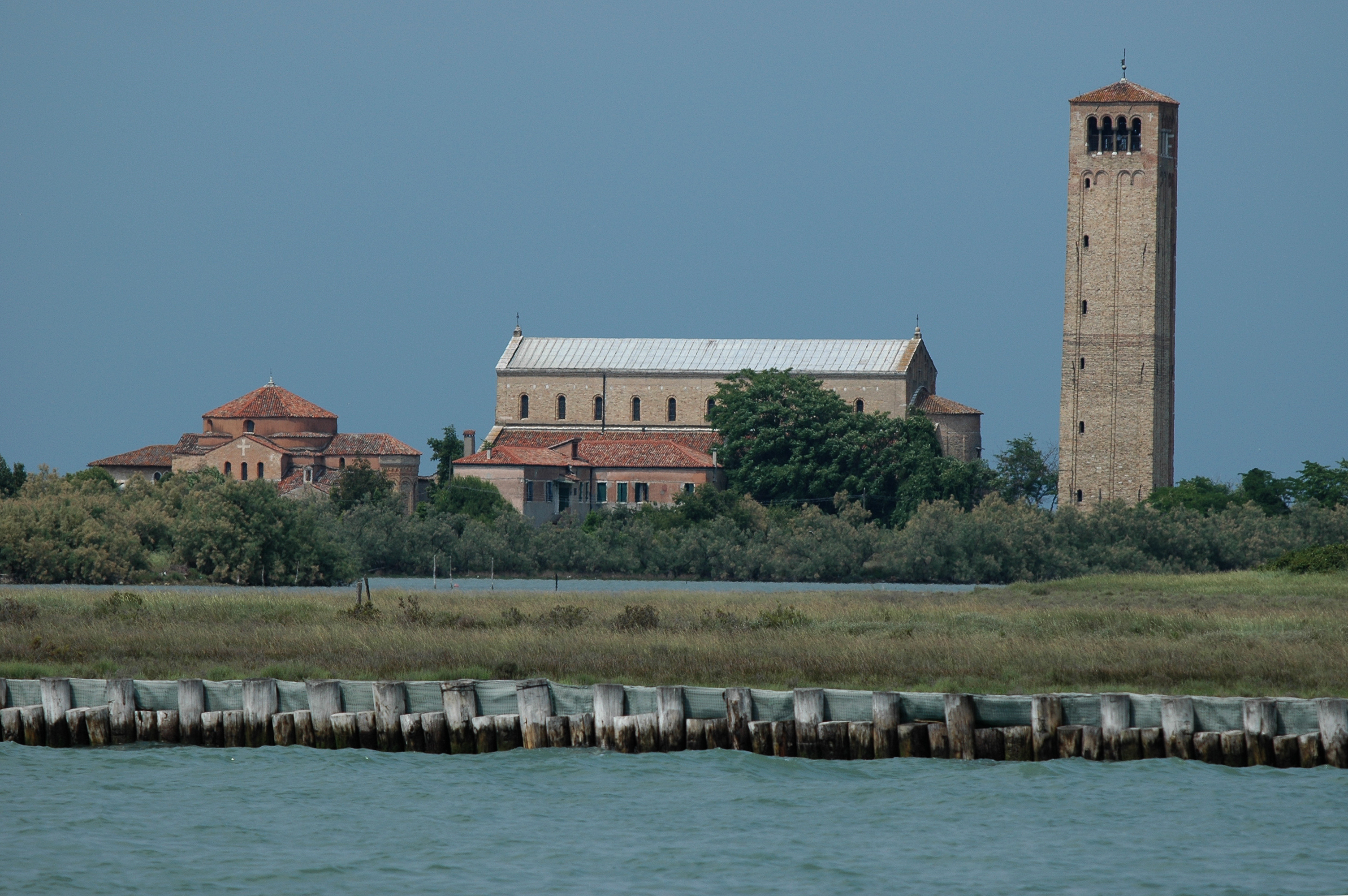 Torcello island